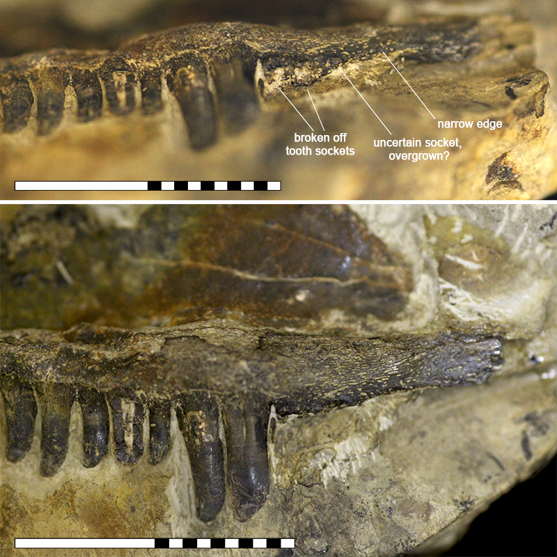 ROM 43608, holotype of Kenomagnathus scottae, gen. et sp. nov., close-up of anterior maxilla in medial aspect, from latero-ventral (above) and lateral (below). Scale bars equal 2 cm.